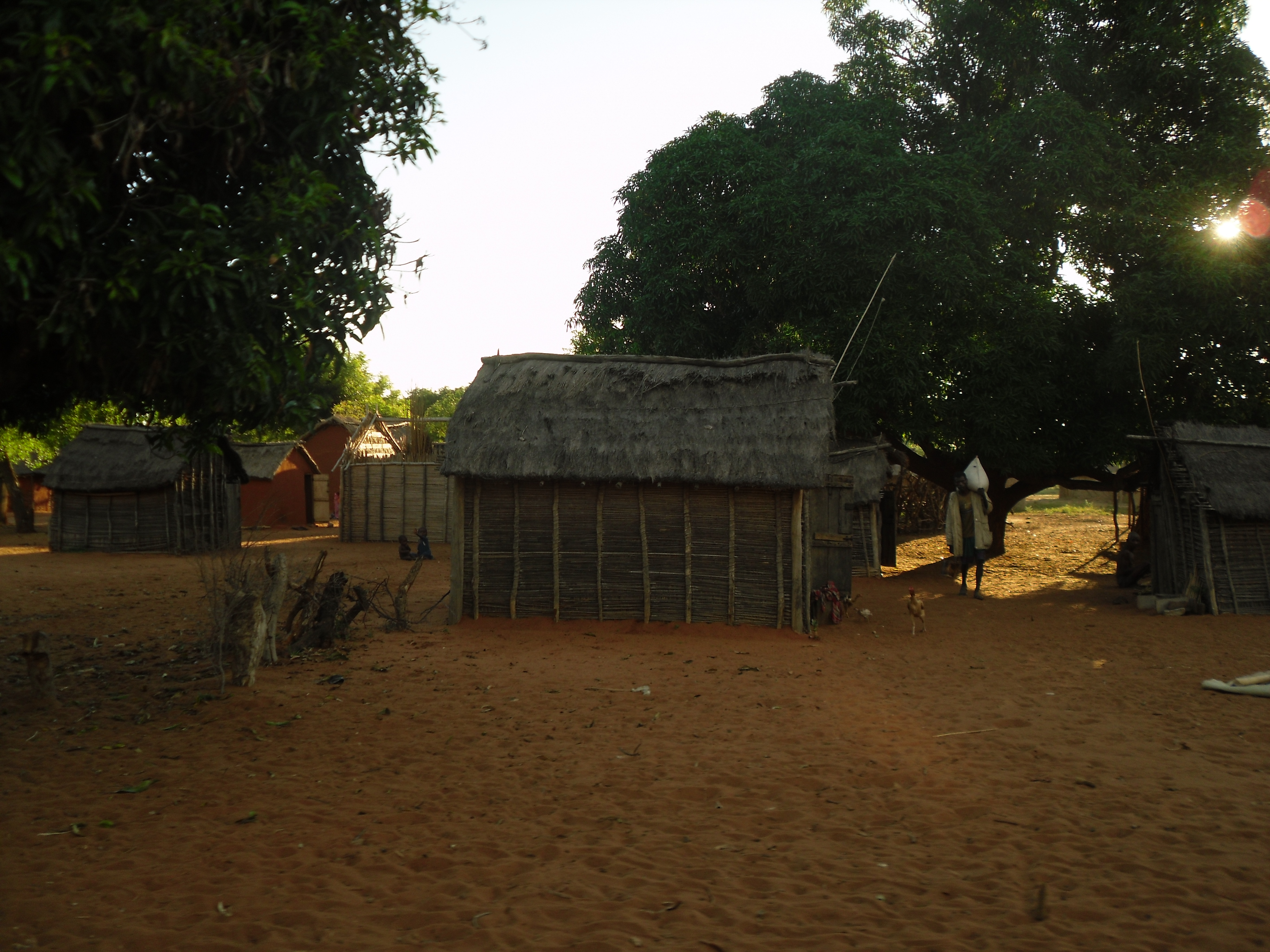 Mahafaly village near the Beza Mahafaly Special Reserve in southwestern Madagascar